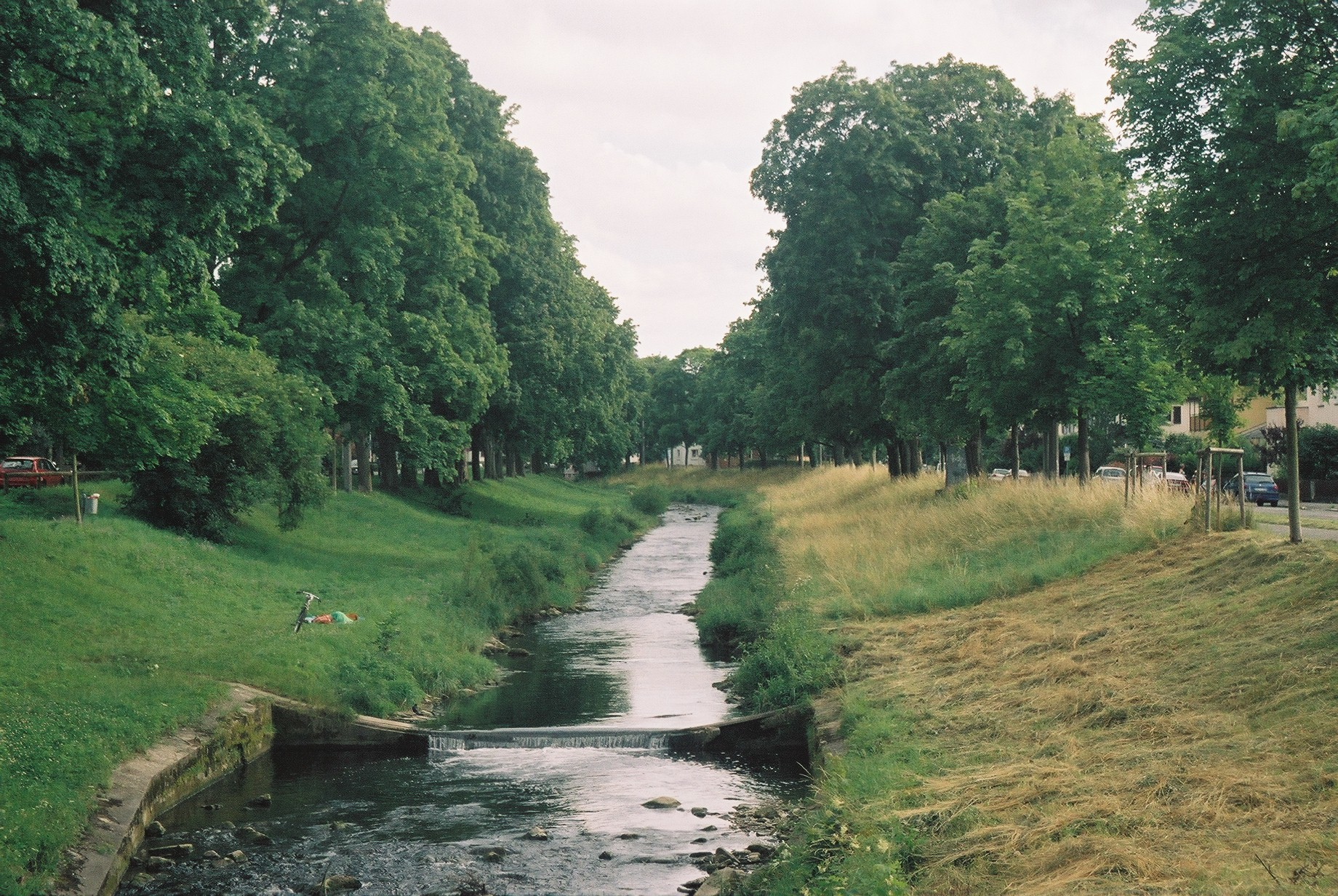 Steinlach in Tübingen